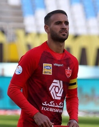 Ahmad Nourollahi